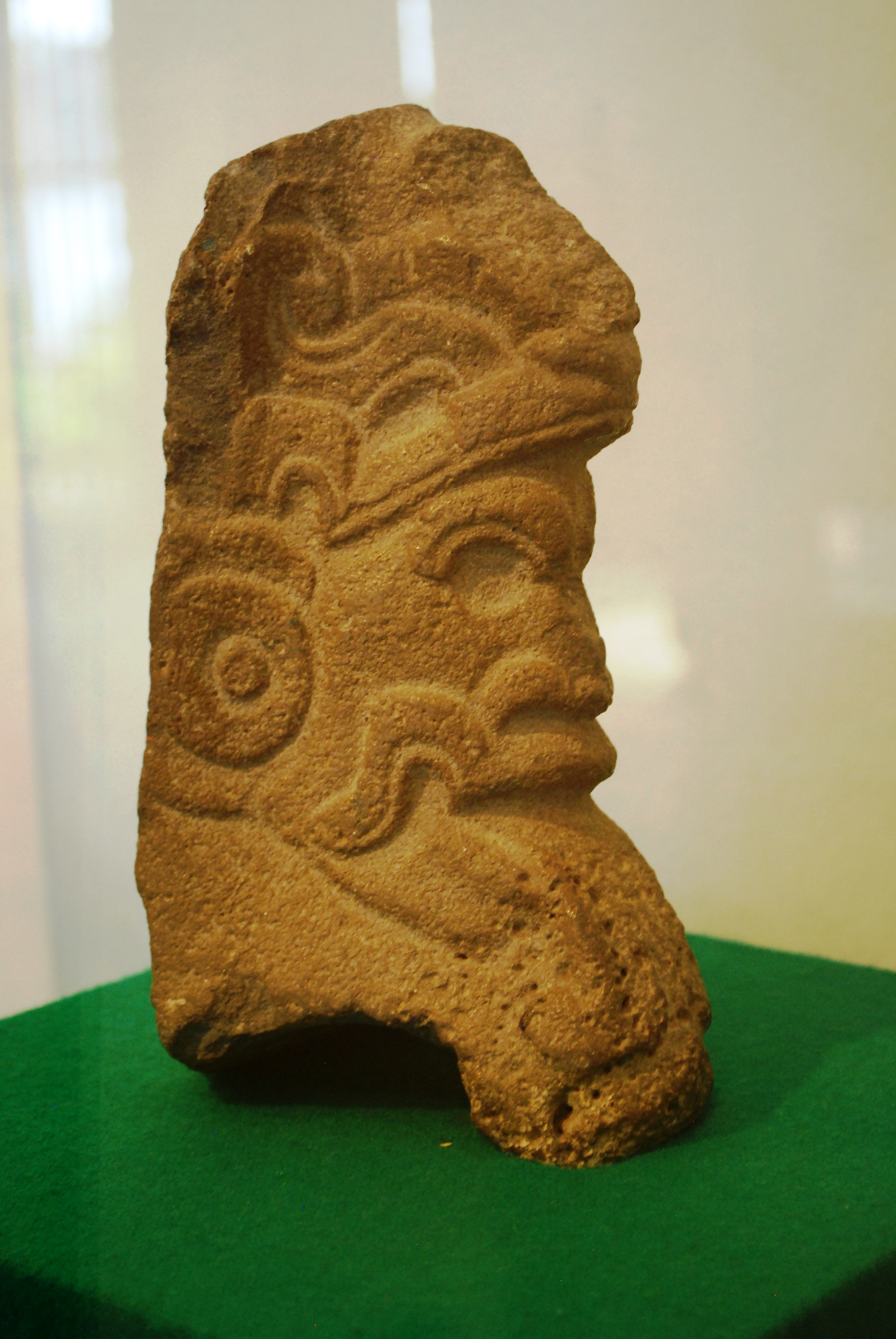 Unlabeled artifact on display at the Museo Arqueologico de la Costa Grande in Zihuatanejo, Mexico